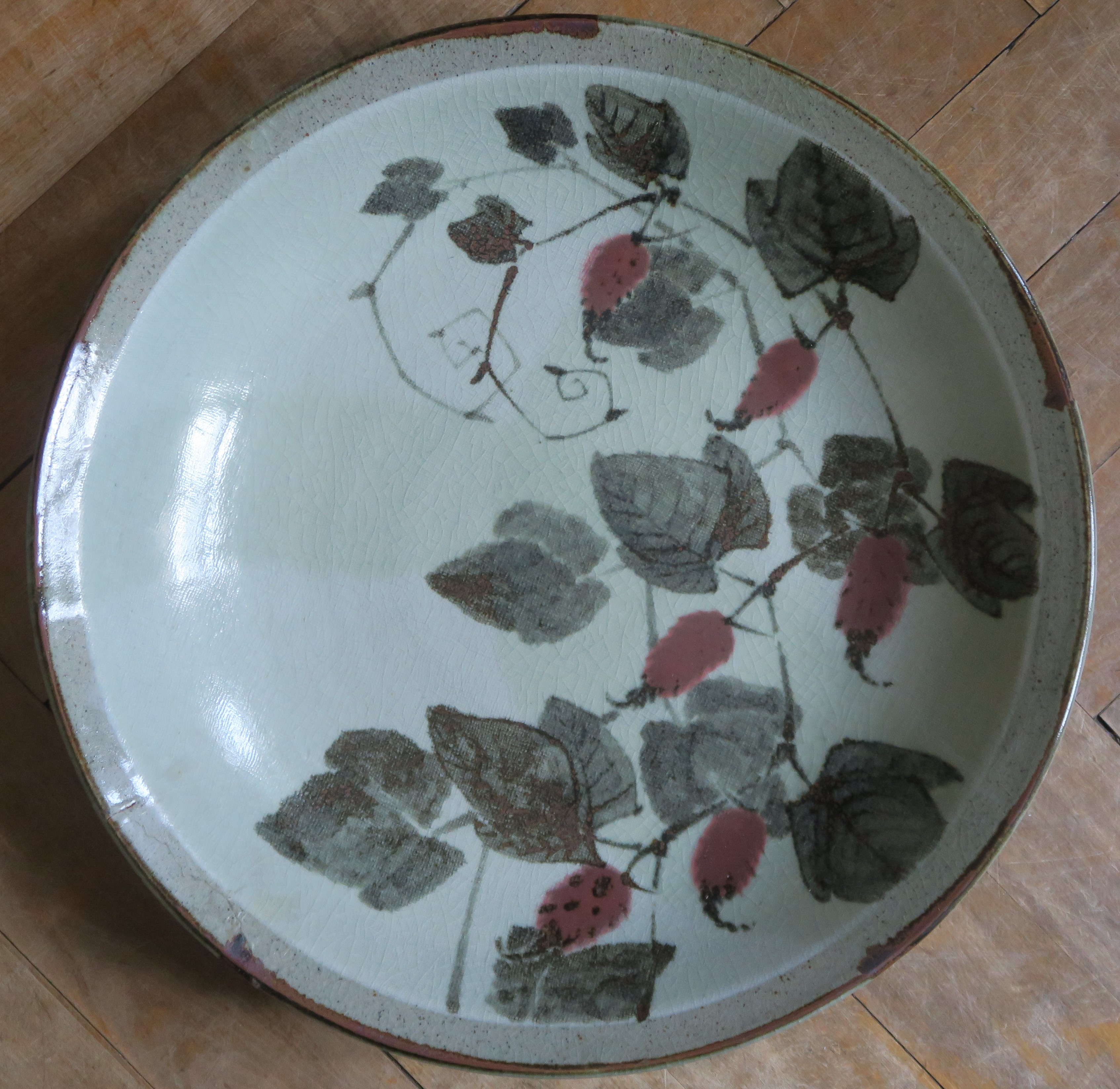 Plate, designed and produced by Hattori Shunzō^, Maihiko, Japan